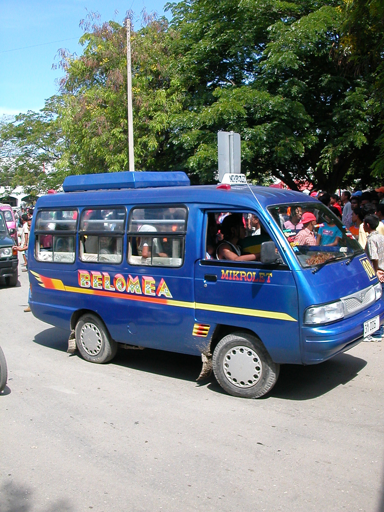 Public transport Mikrolet (little bus), East Timor.